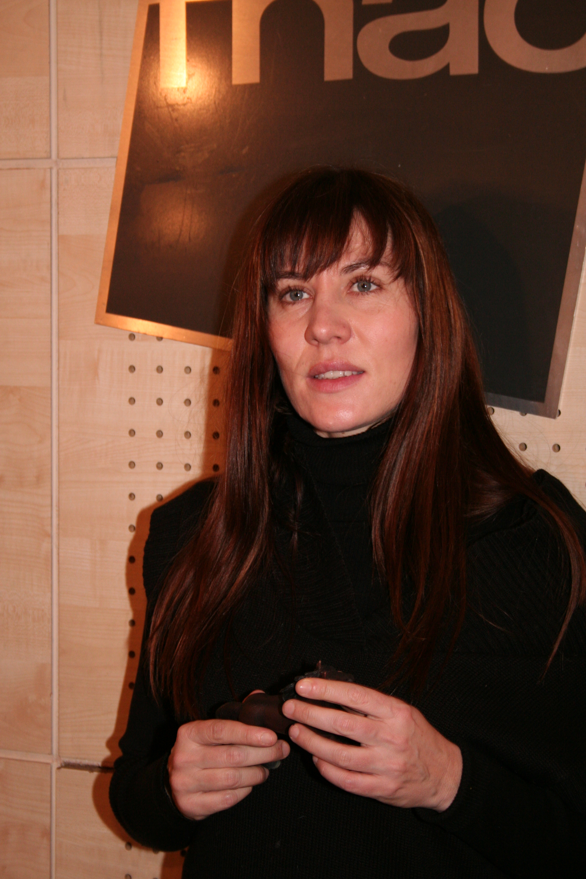 Meet-up with Mathilde Seigner and Valérie Guignabodet organized by Fnac Saint-Lazare (Paris, France) for the release of the film Danse avec lui.